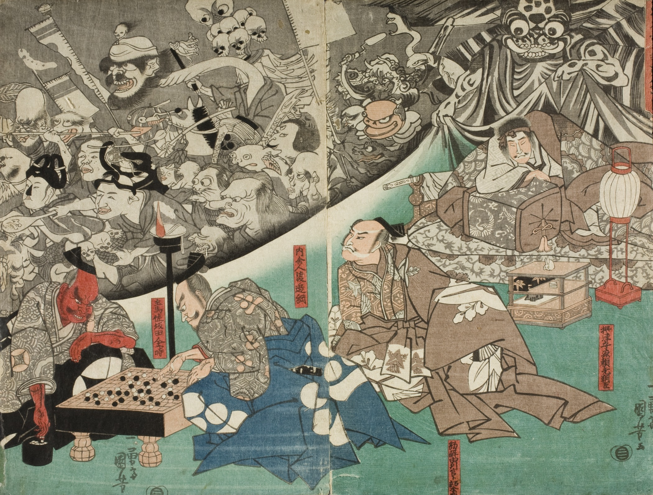 mid 1840s Prints; woodcuts Color woodblock print triptych Sight: 13 3/4 x 26 5/8 in. (35 x 67.7 cm) The Joan Elizabeth Tanney Bequest (M.2006.136.292a-c) Japanese Art